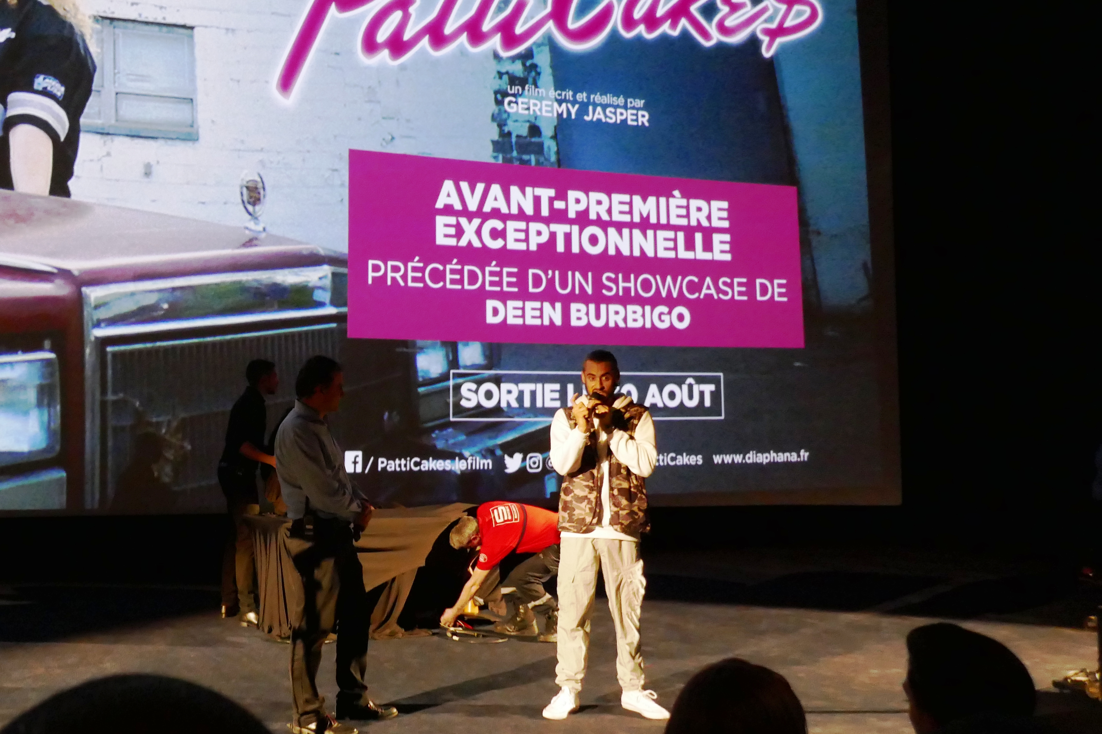 Paris premiere of the movie Patti Cake$, presented by French rapper Deen Burbigo